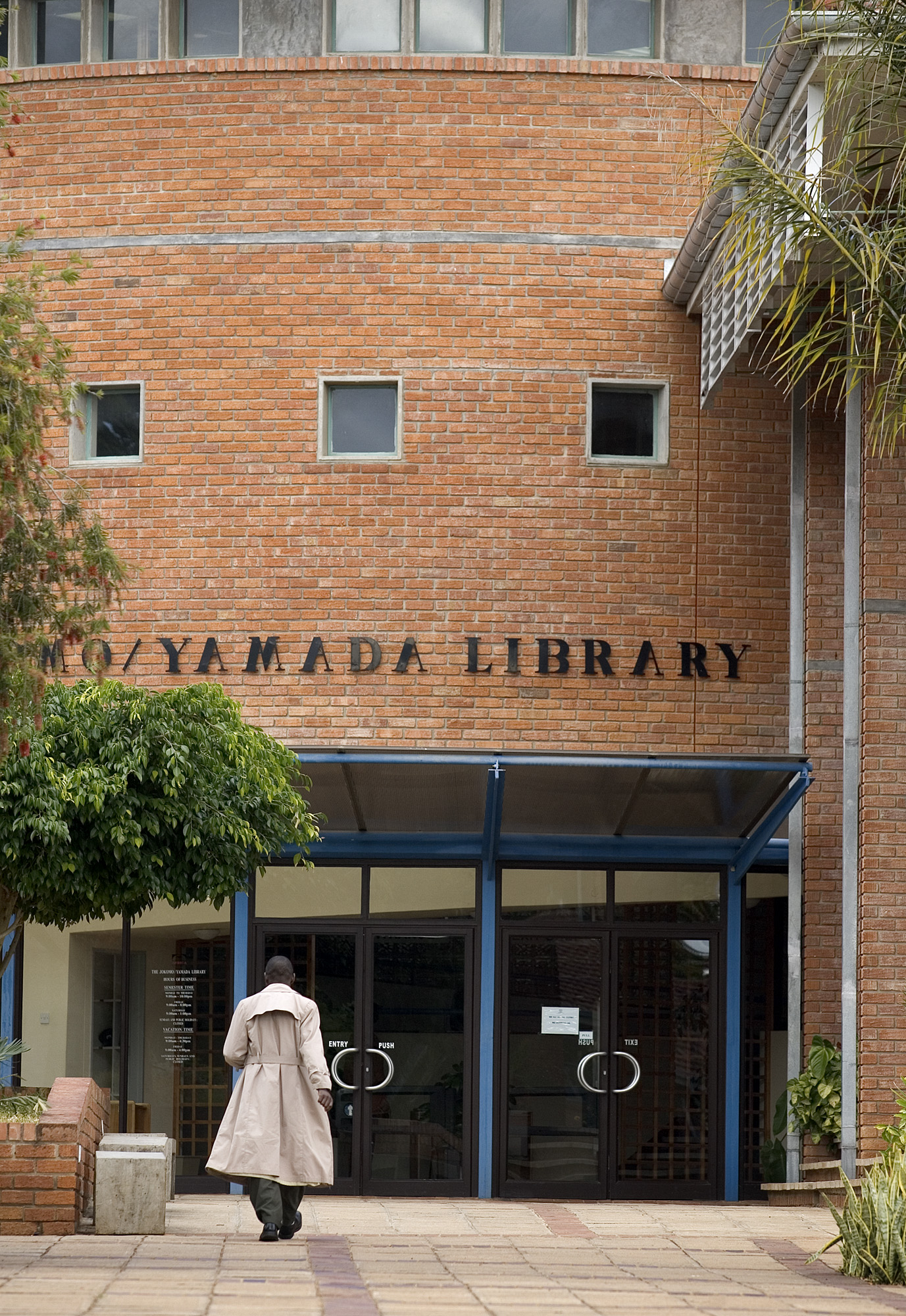 Africa University Jokomo-Yamada Library ENtrance